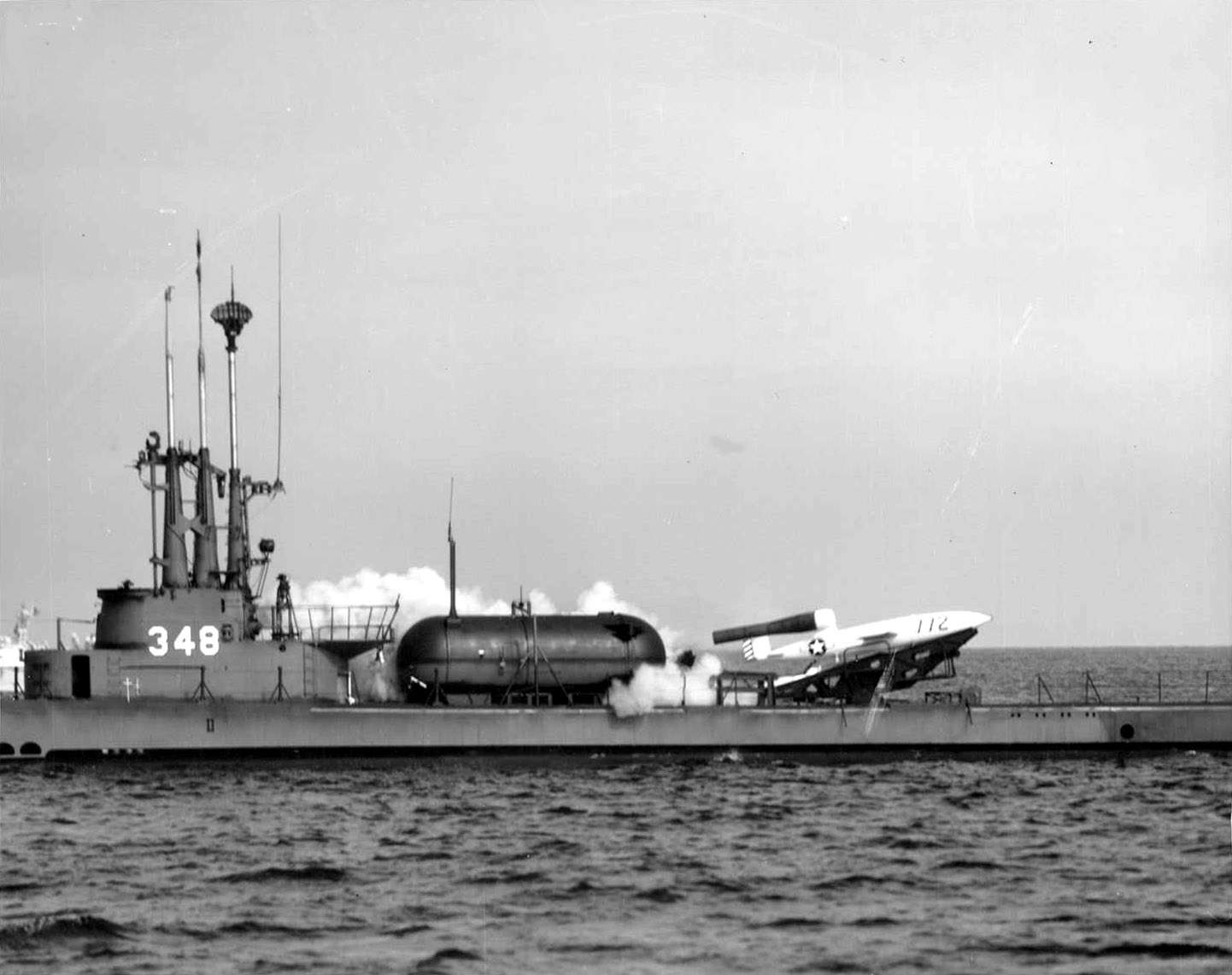 USS Cusk (SSG-348) firing a Loon missile, 1951.